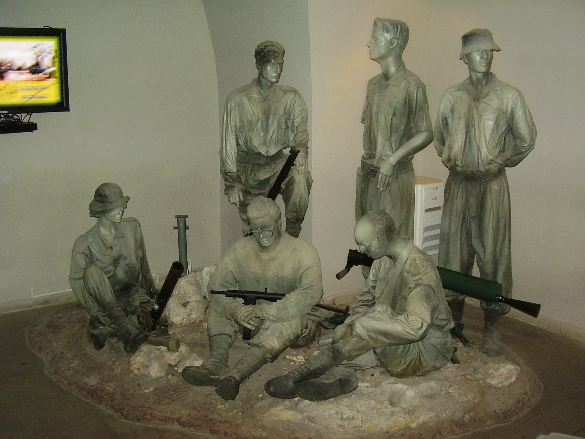 Haganah museum in Juara